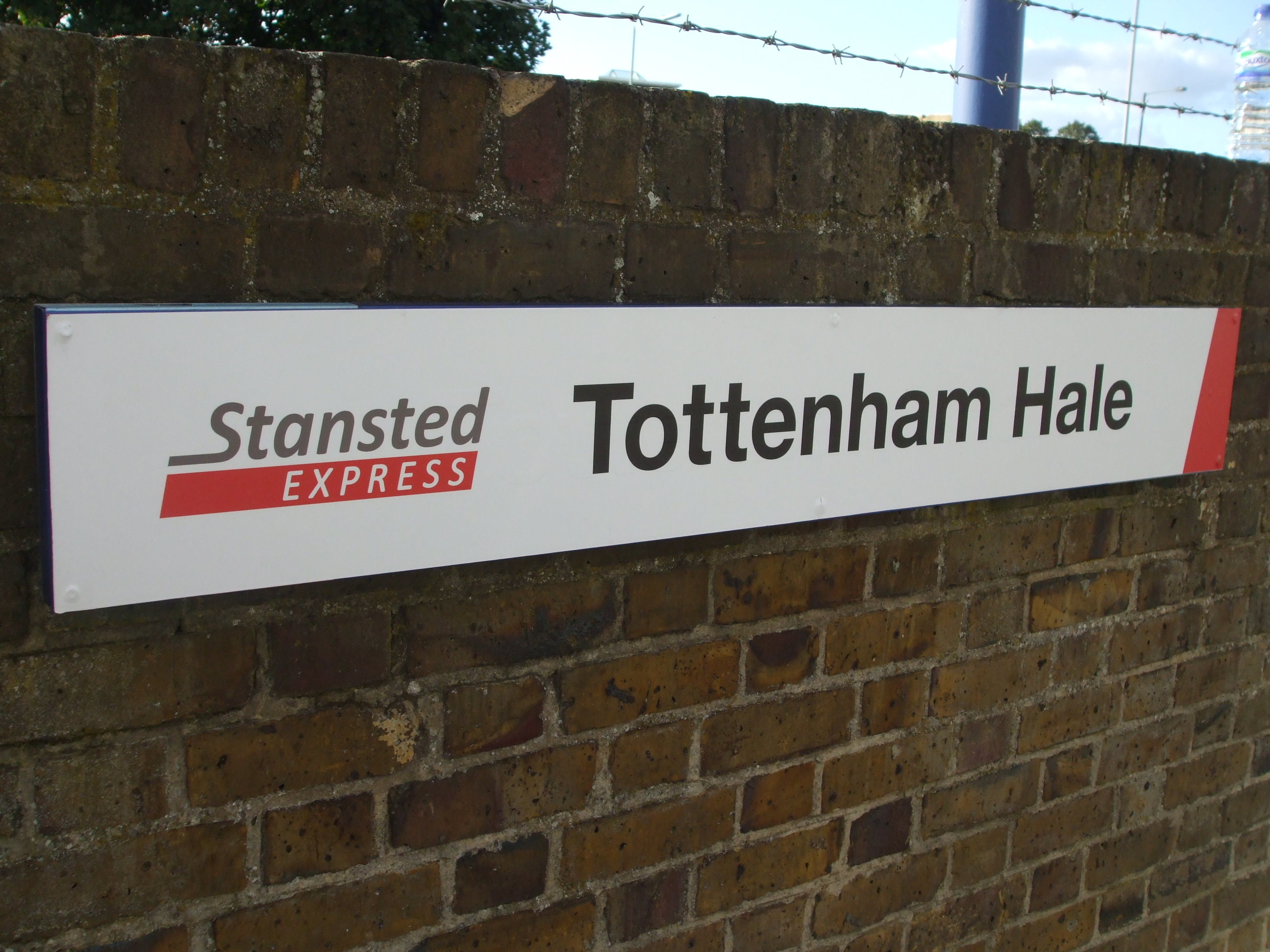 Tottenham Hale station main line platform signage, as seen in 2012, with Stansted Express logo.